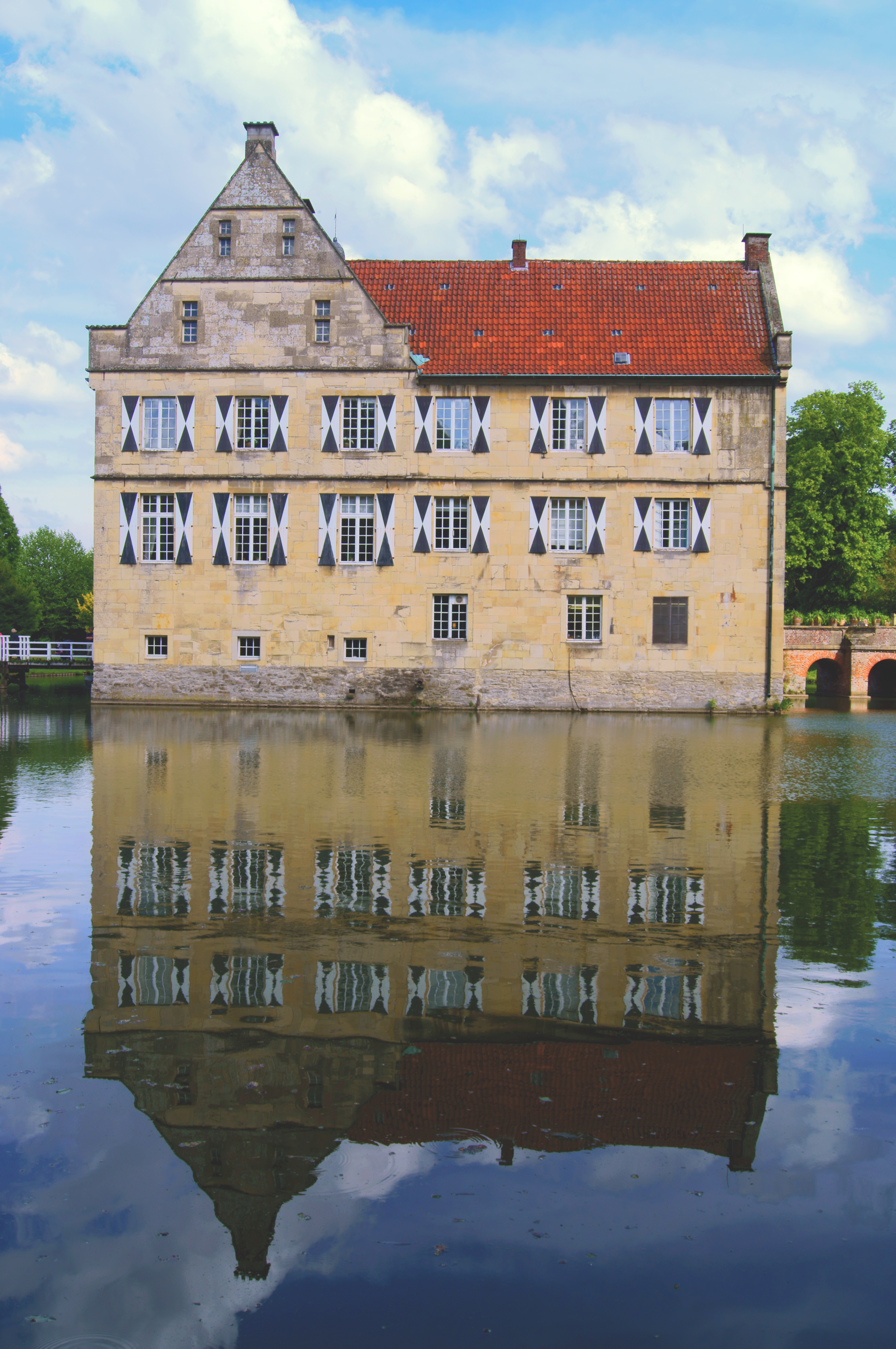 Burg Hülshoff is a water castle in the region of Münster. It is the birthplace of the poetesse Annette von Droste-Hülshoff (1797-1848).